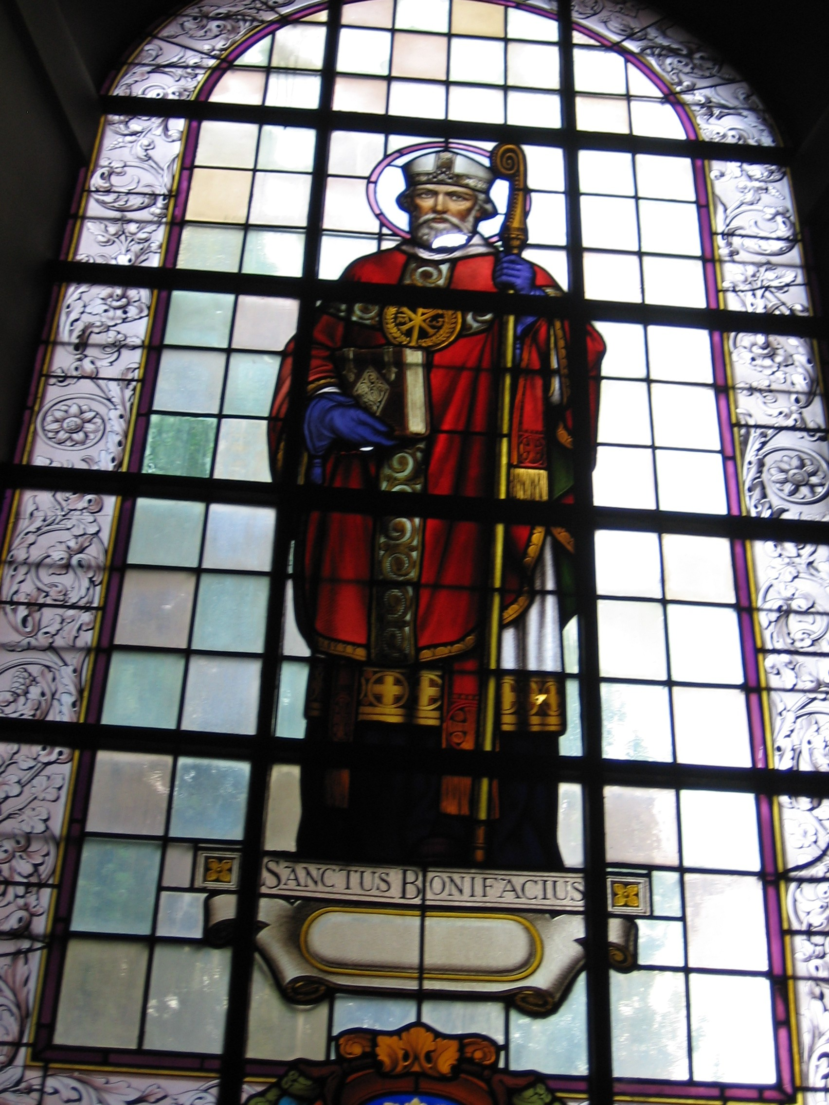 Saint Boniface of Bruxelles (bishop of Lausanne), a stained glass window in the Saint Peter's Church of Uccle (Bruxelles)